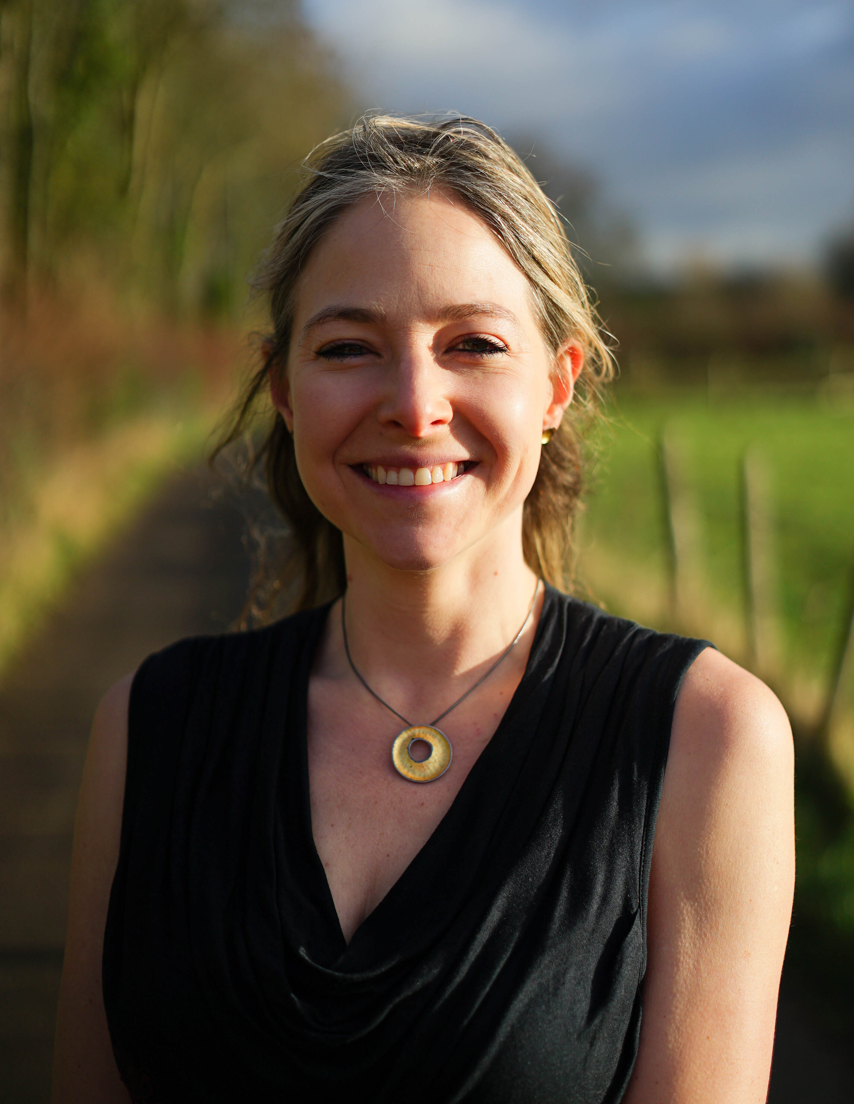 Portrait of Alice Roberts